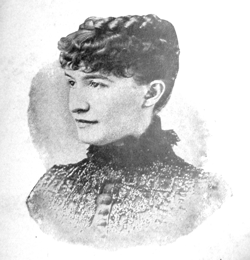 Author Mary Noailles Murfree, who wrote under the pen name Charles Egbert Craddock.